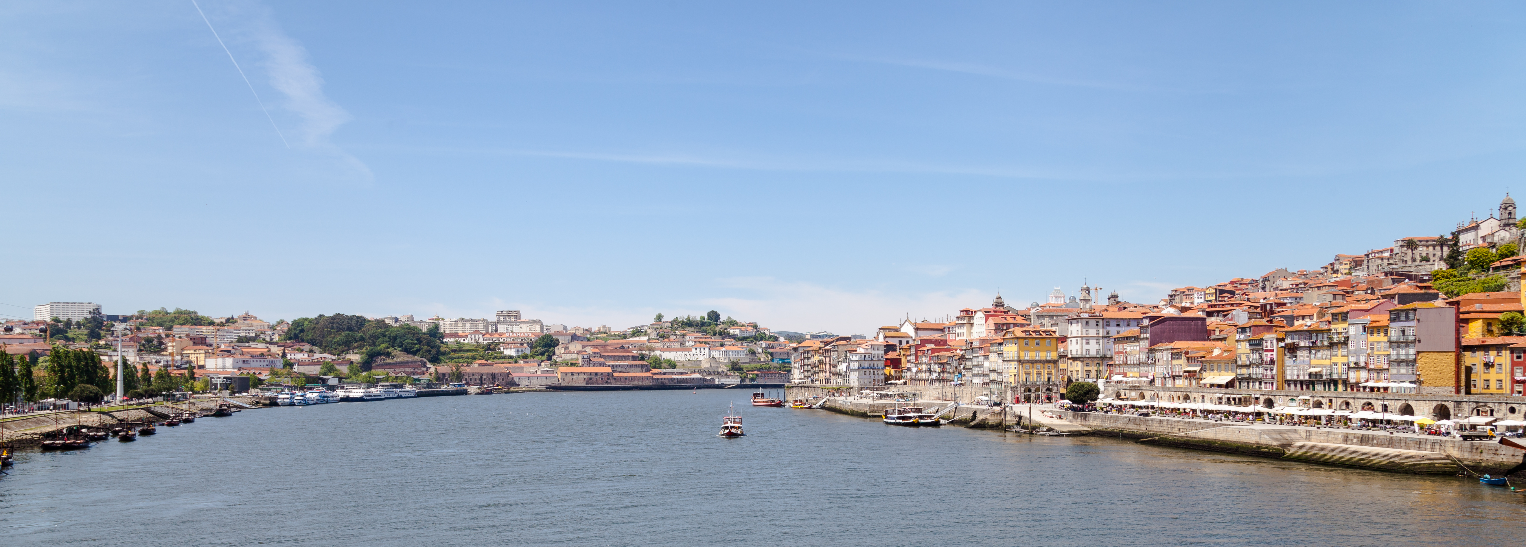 Cais da Ribeira, Porto, Portugal